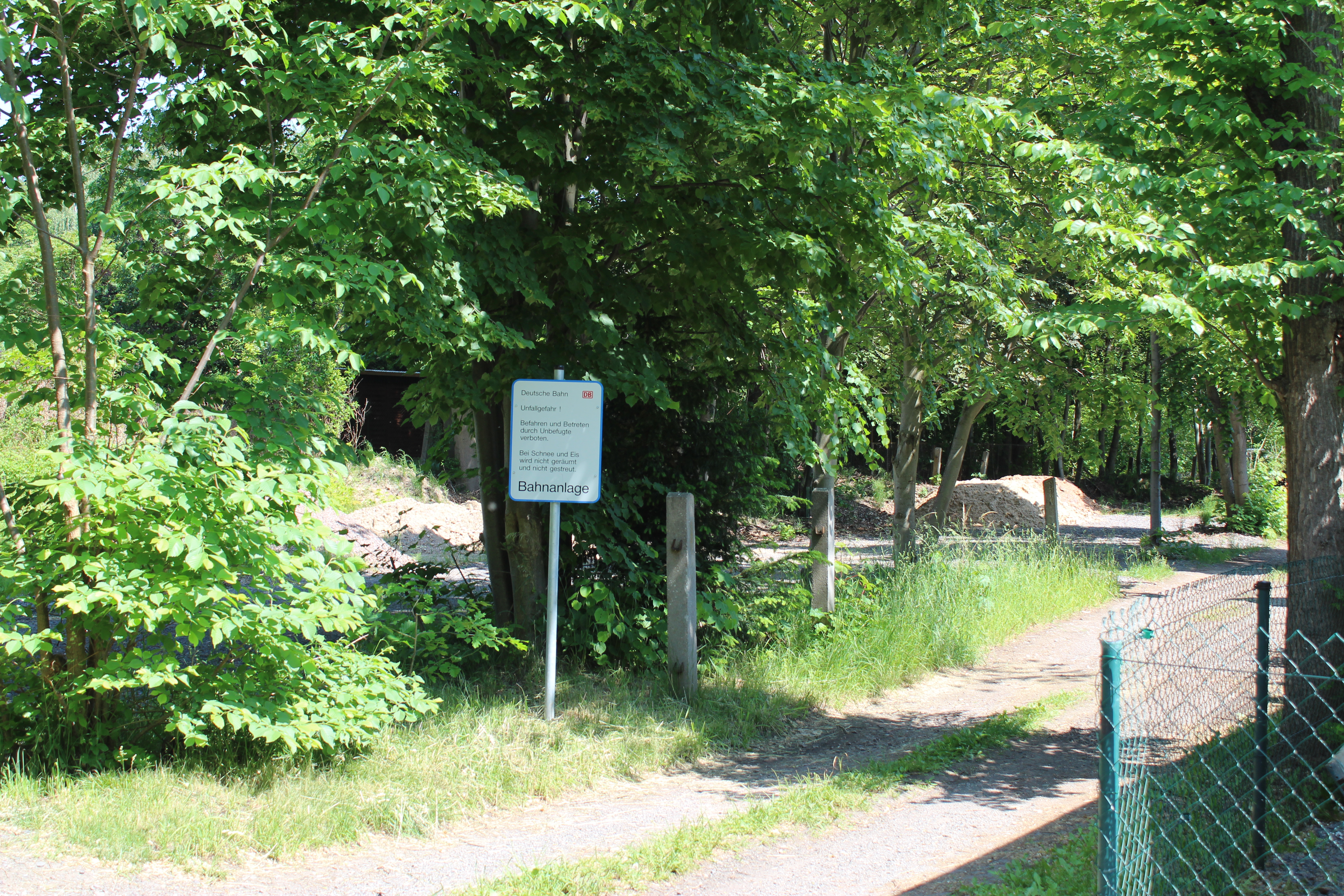 train station Münchenbernsdorf